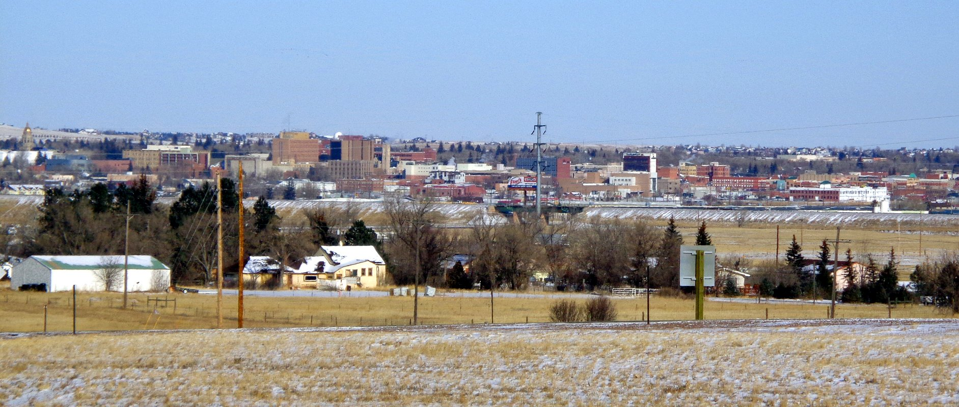 Panorama of Cheyenne, Wyoming, looking NE from Quality Inn